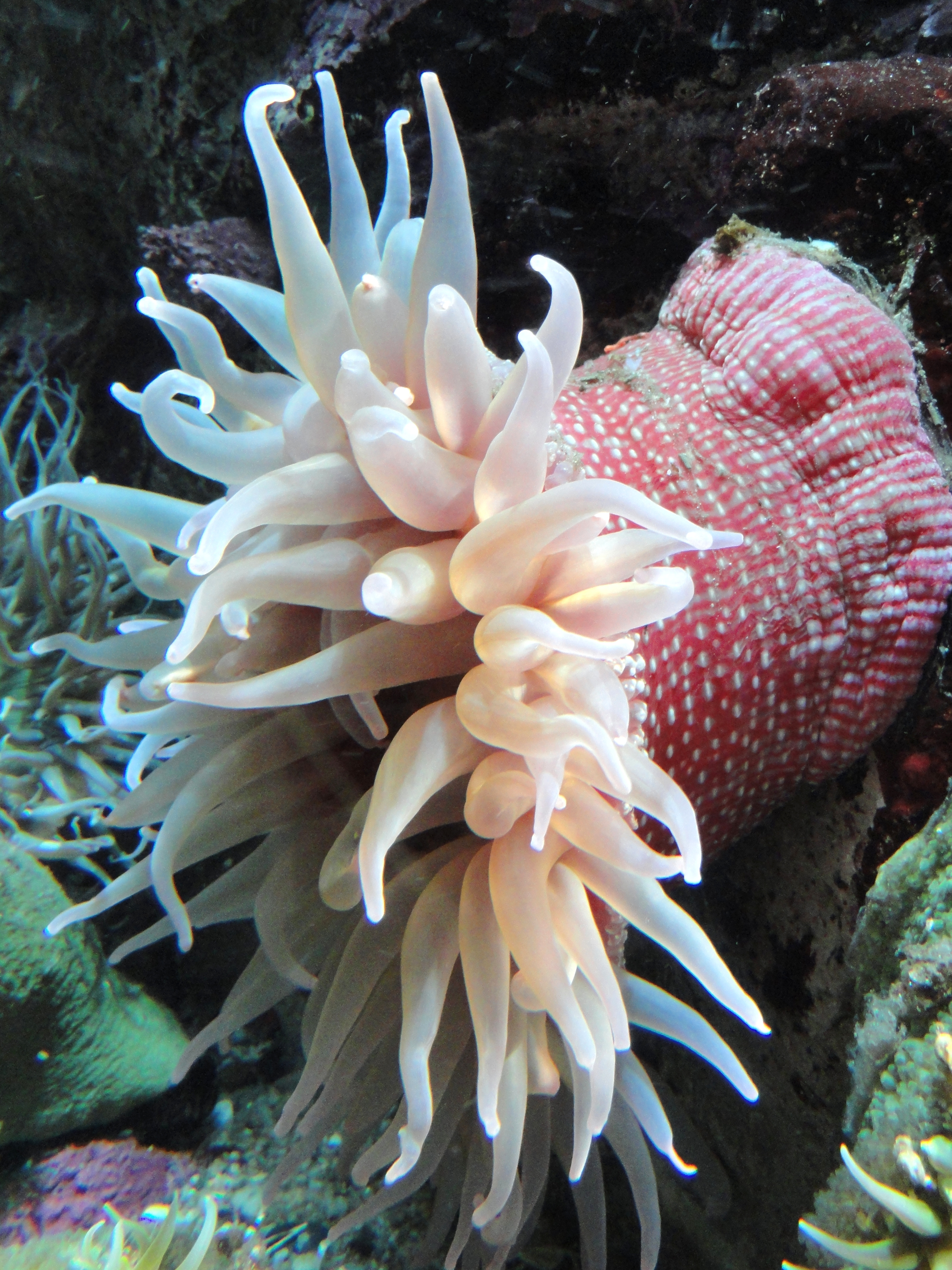 Exhibit in the Monterey Bay Aquarium, Monterey County, California, USA.